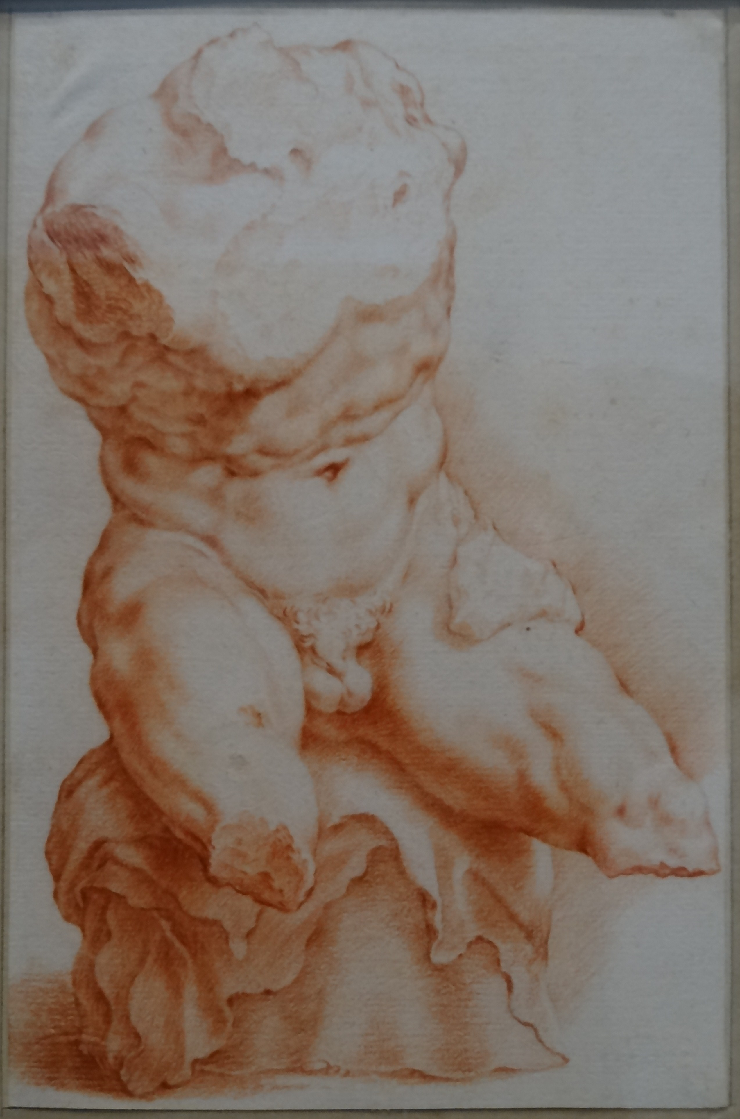 The Europe of Rubens, Louvre-Lens, 22 May 2013–23 September 2013